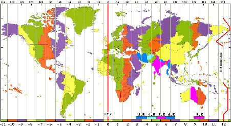 Time Zones in 2007